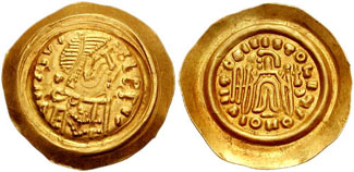 Lombards: Anonymous. In the name of Mauricius Tiberius. Circa 582-602 AD. AV Tremissis (1.41 gm). Imitating Ravenna mint. Garbled legend, crude bust of Maurice right Garbled legend, Victory standing facing, holding wreath and globus cruciger; IONOI. Bernareggi 1; cf. Arslan 18; MEC 1, 306; cf. BMC Vandals pg. 129, 27. EF. From the Garth R. Drewry Collection.